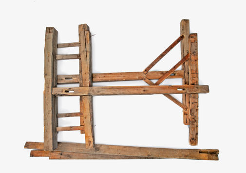 Parts of the wooden bunks, mine Butugychag (Kolyma region), 1940. On these wooden planks usually slept four, and sometimes more prisoners. Source: Collection of "Memorial", Moscow